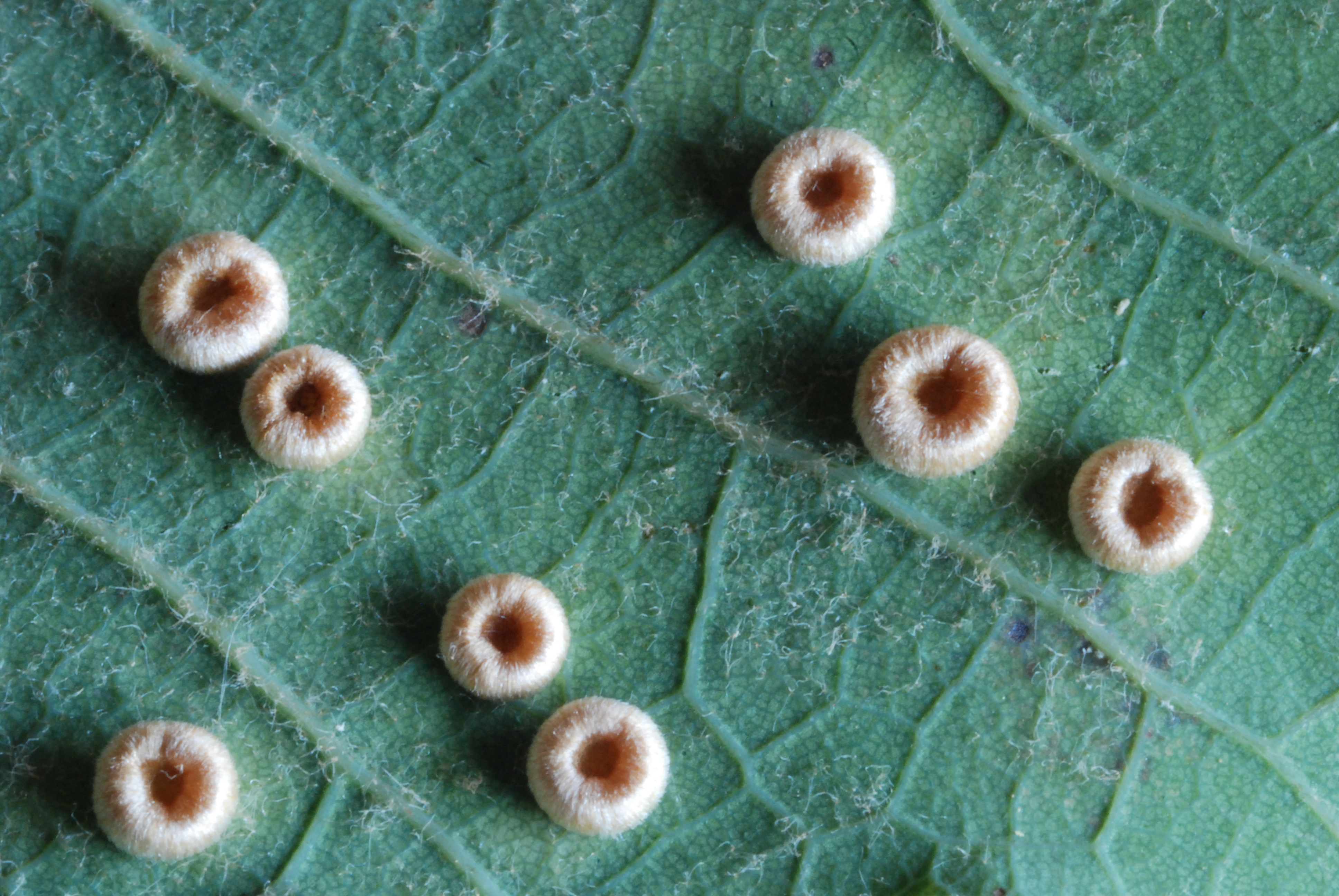 Neuroterus numismalis galls on Quercus pyrenaica growing in Catalonia, Spain